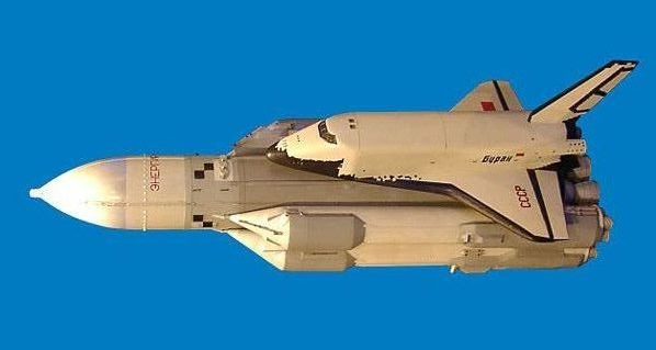 Model of the Energia rocket with Buran shuttle. Photographed at the "Russia in Space" exhibition at the Frankfurt airport in Germany.